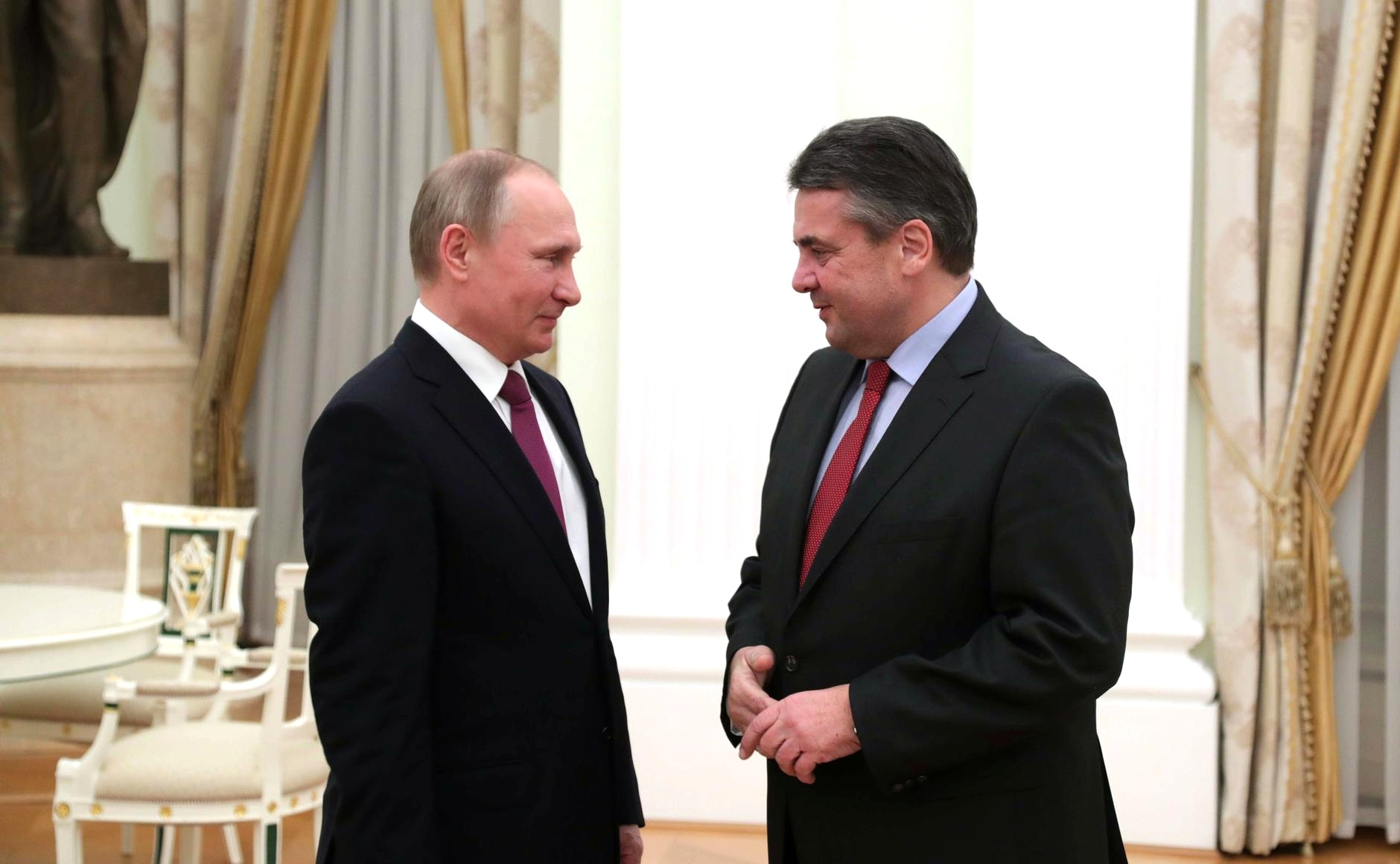 Meeting with German Foreign Minister Sigmar Gabriel in Kremlin, Moscow